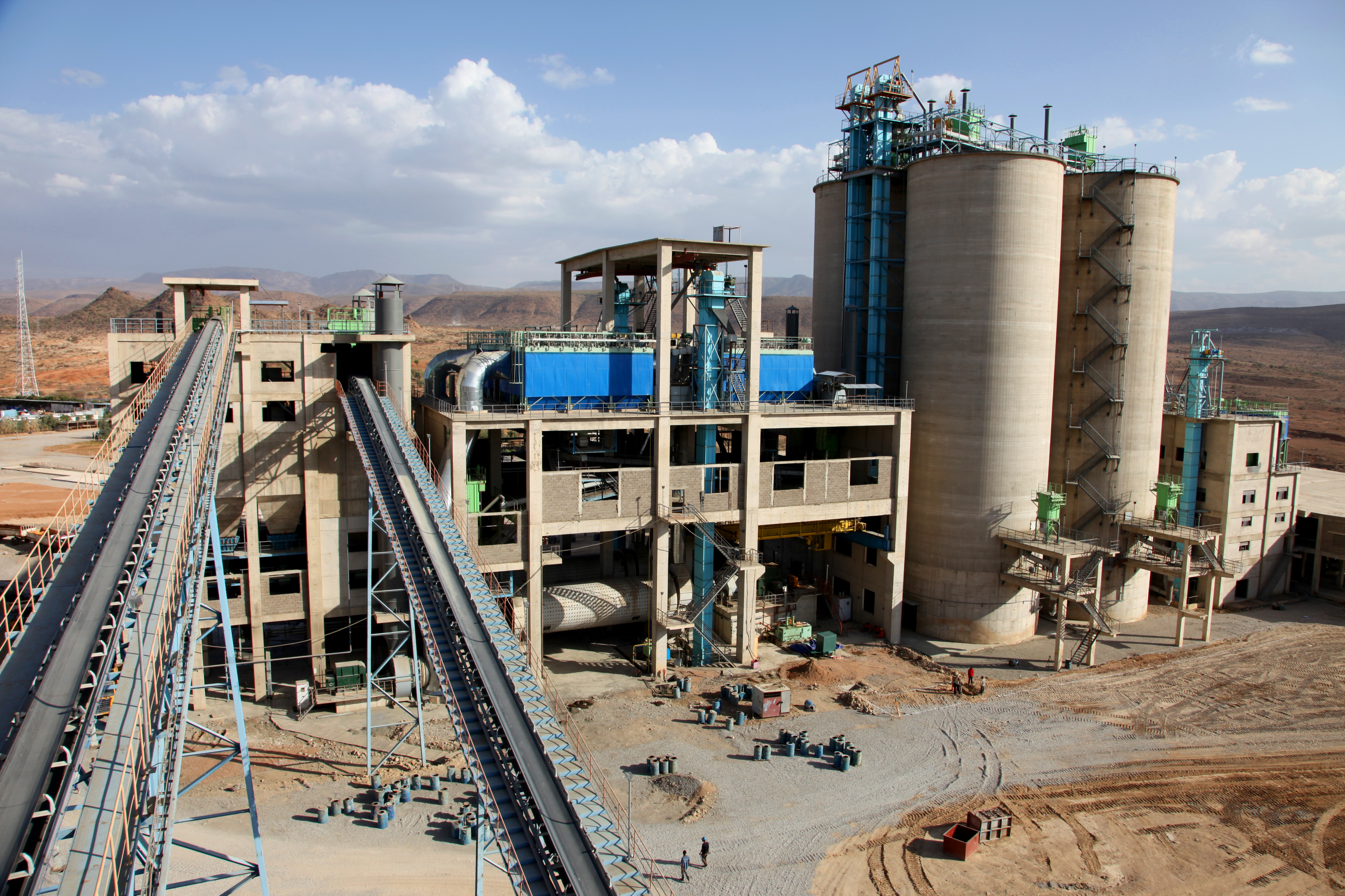 As the need for concrete in Ethiopia's construction industry grows, so too has the National Cement Share Company. Its new plant in the east of the country will increase its production by six times. British investment – through the UK's development finance firm CDC – has helped the company to build the new factory, supporting its ambitions to expand.